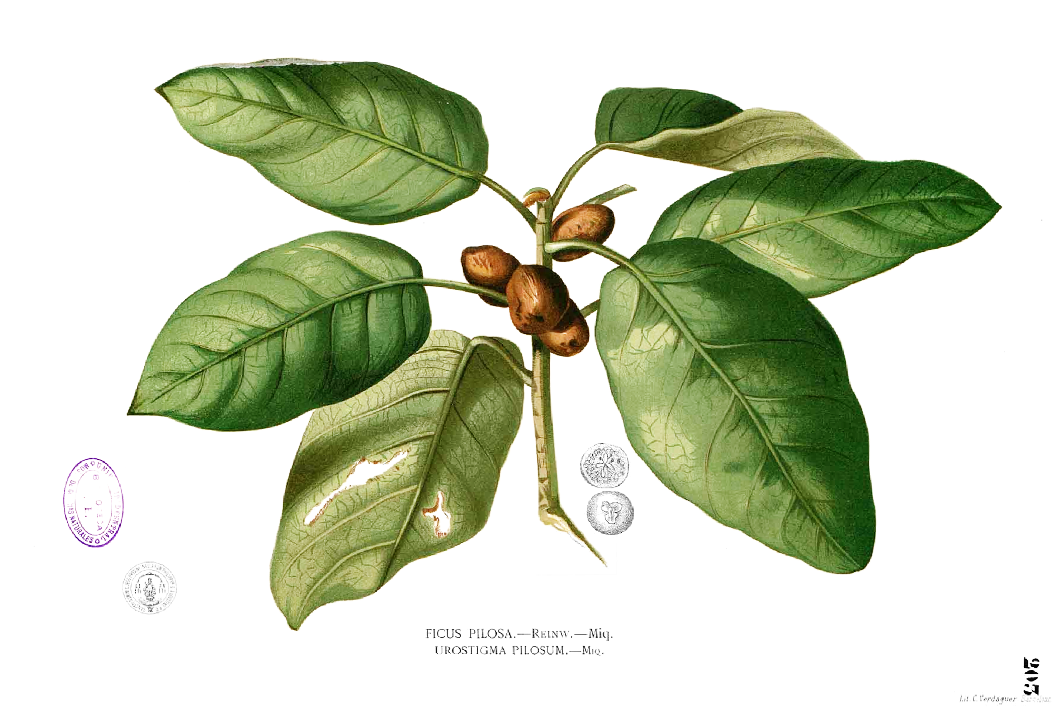 Plate from book